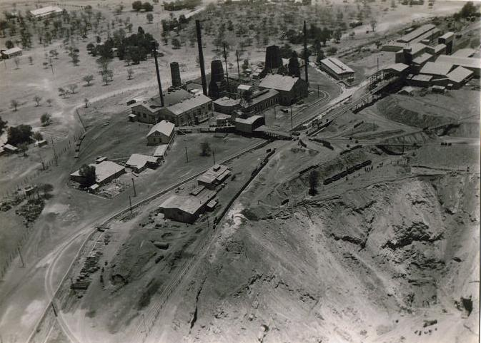 Aerial view of Tsumeb (Namibia) mining and hut plant.